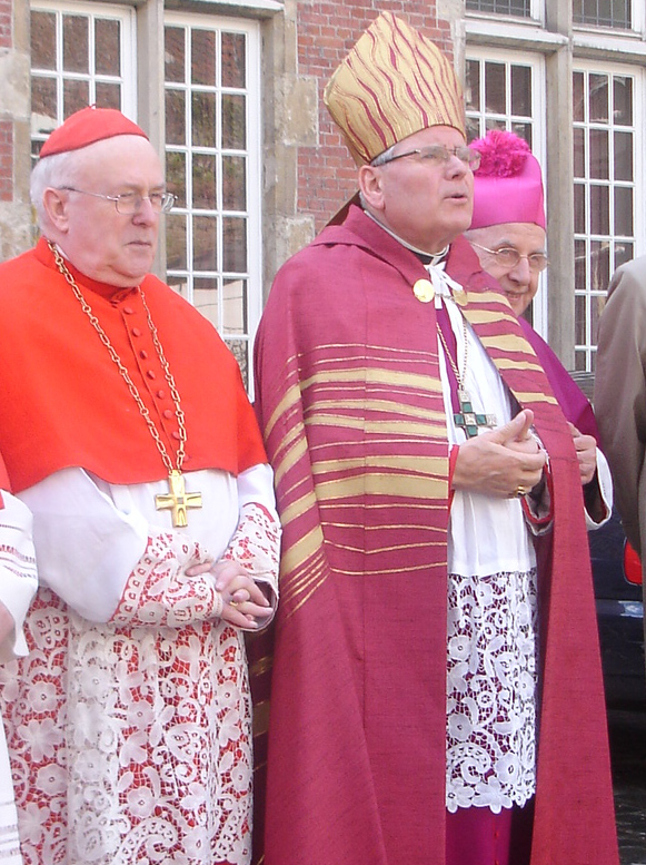 Cardinal Danneels and former Mgr. Vangheluwe, 2008